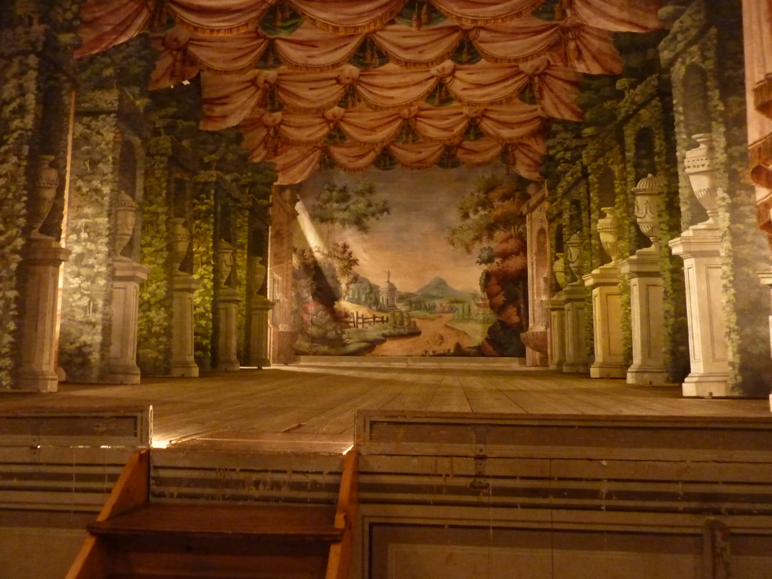 Baroque theater from 1796-1797 on the ground floor of the chateau in Litomyšl, Czech Republic, a UNESCO world heritage site.